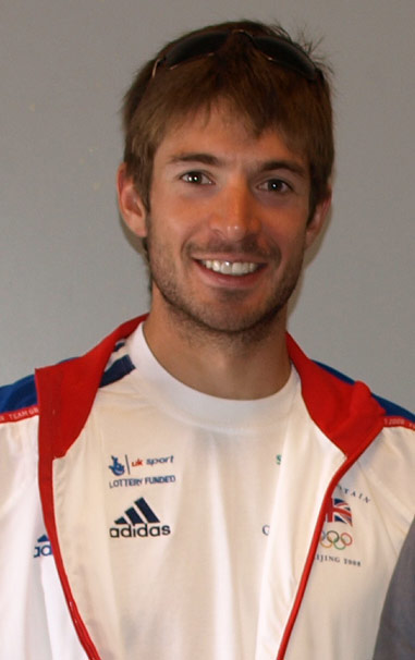 Zac Purchase MBE at a press event in Reading, UK.